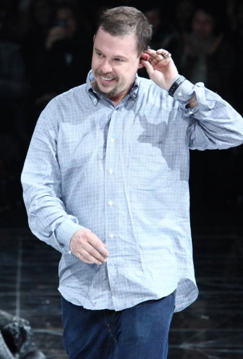 Alexander McQueen (17 March 1969 – 11 February 2010), British fashion designer, at his Fall 2009 collection.